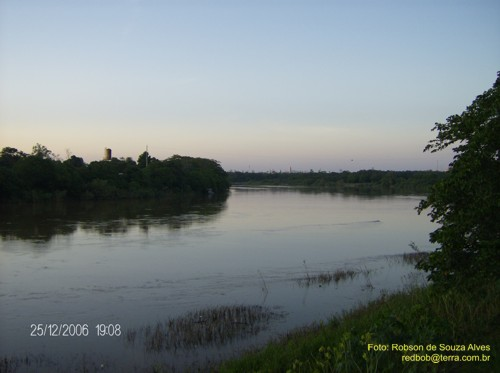 Cuiabá River, upper section near São Gonçalo.